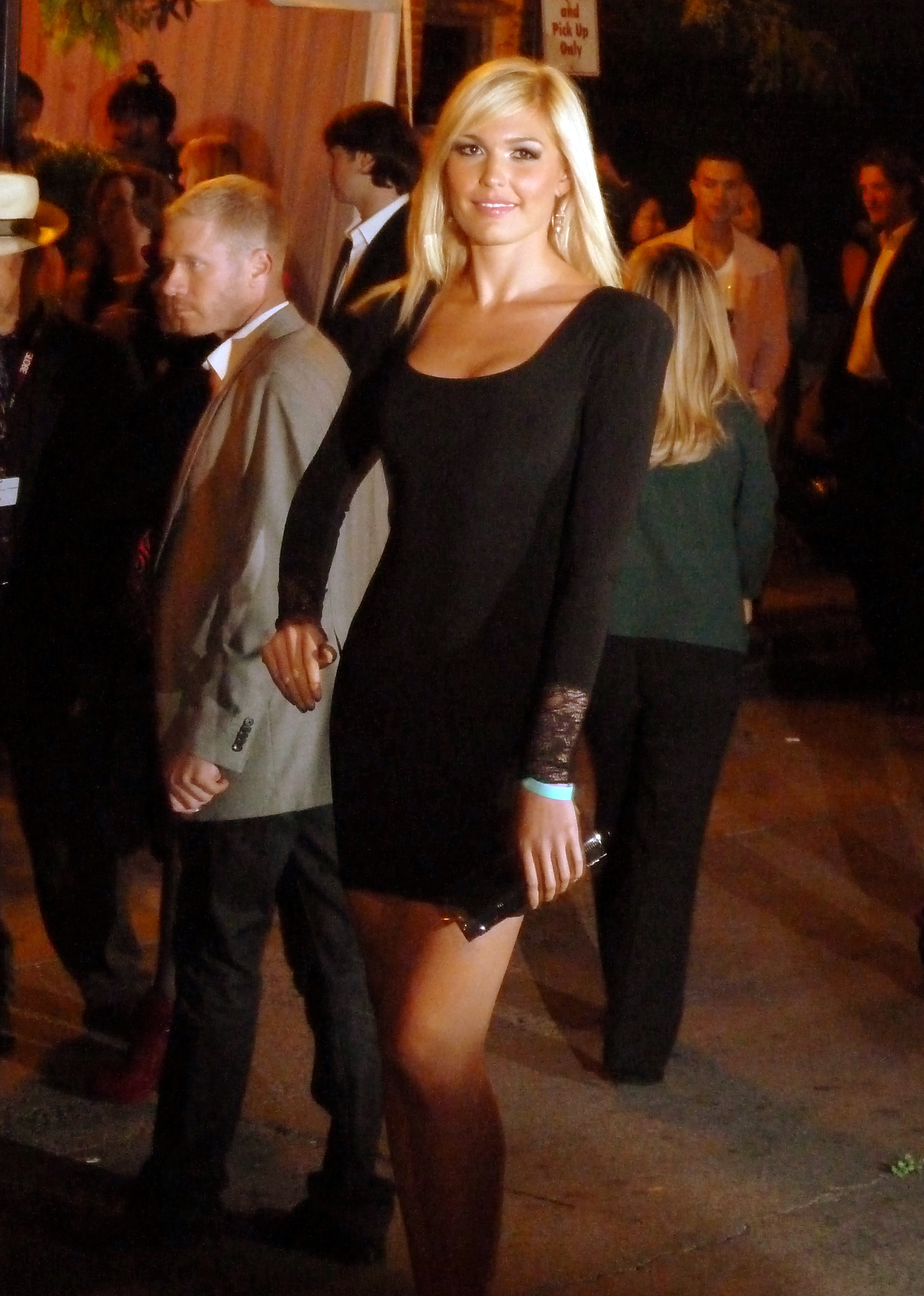 Elena Semikina, Miss Canada who became Miss Universe 2010 Instyle Party at Toronto Film Festival 2011